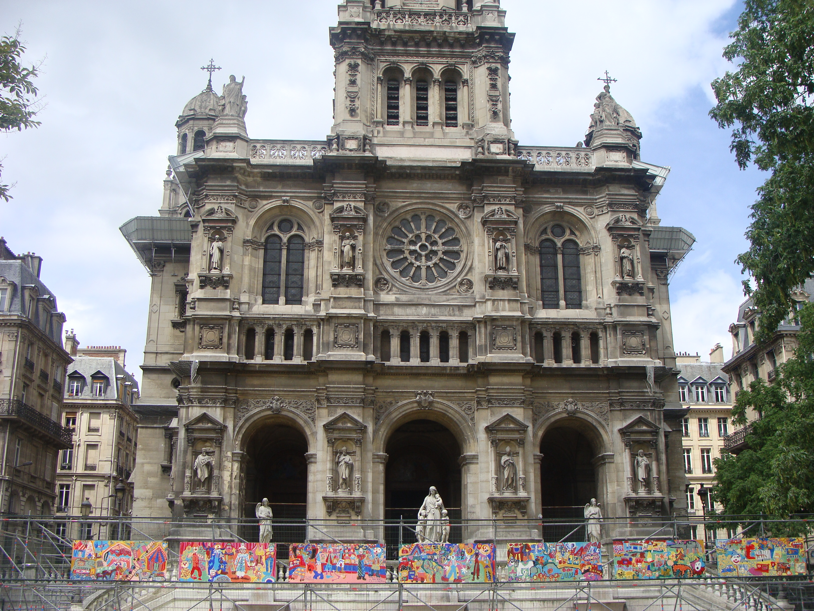 Nouvelle Athenesm Eglise Trinite, Paris